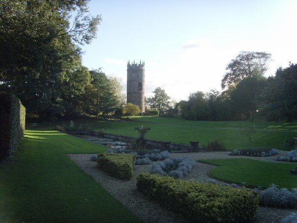 Follies of Goldney Hall